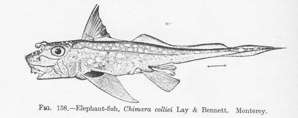 Elephant-fish, Chimara colliei Lay & Bennett. Monteray Subject: Chimaeriformes Tag: Fish